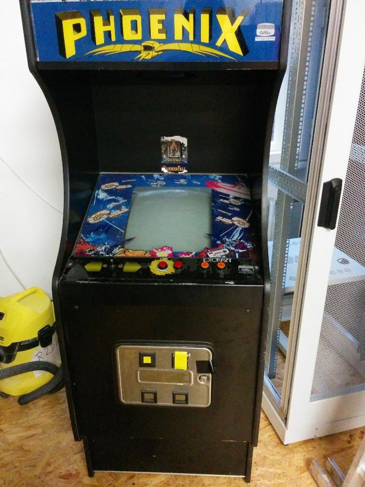 A 1980 model of the "Phoenix" arcade cabinet.